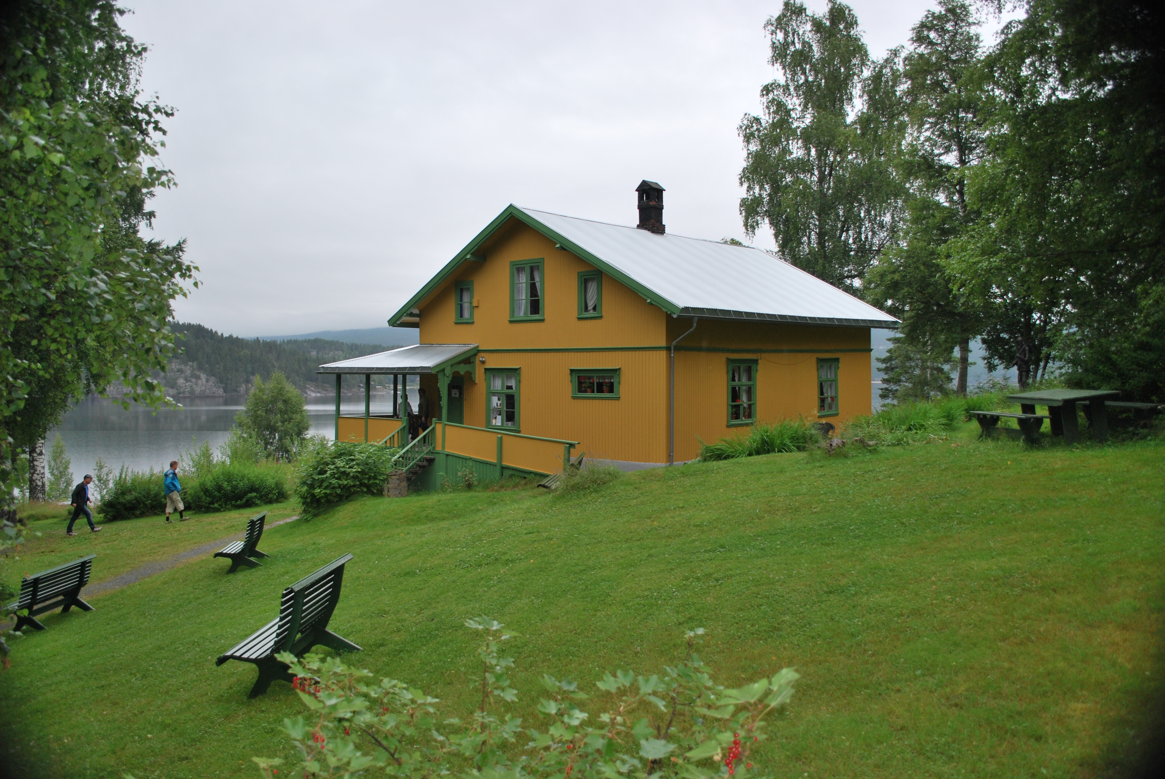 Lauvlia, home of Norwegian painter Theodor Kittelsen